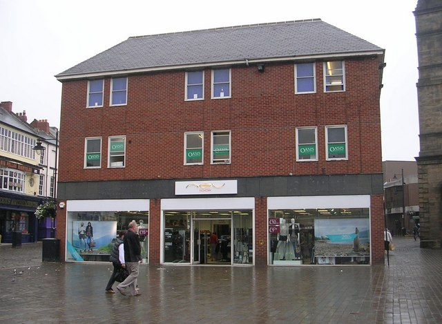 New Look - Market Place